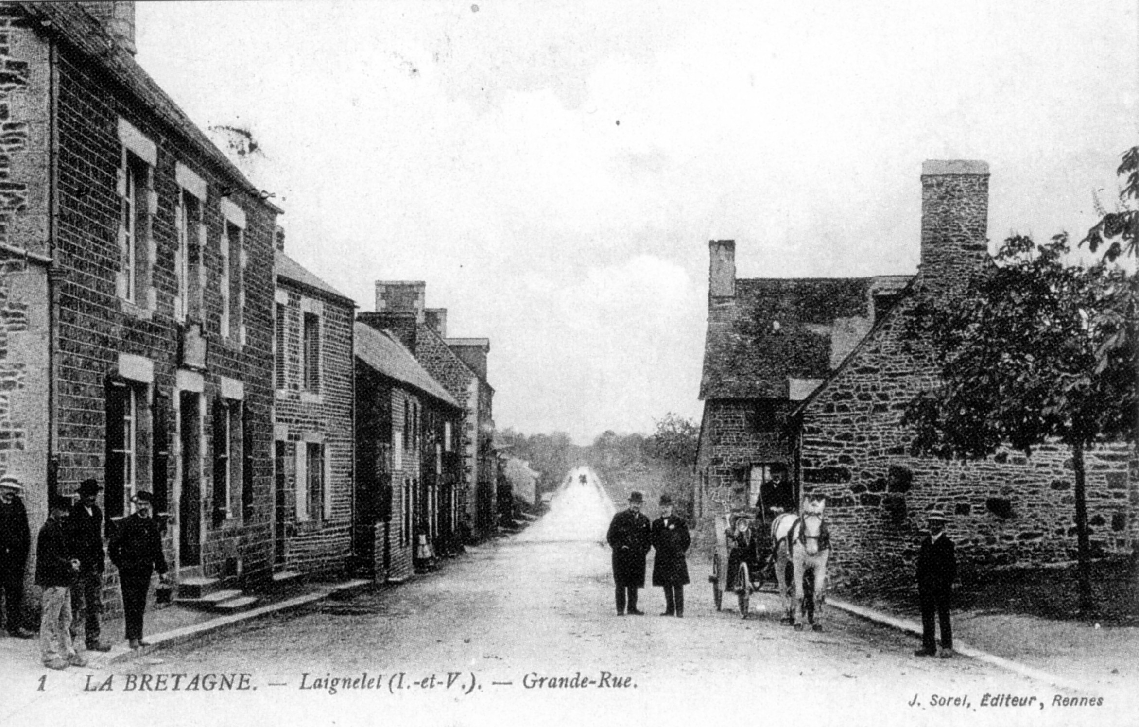 rue du maine